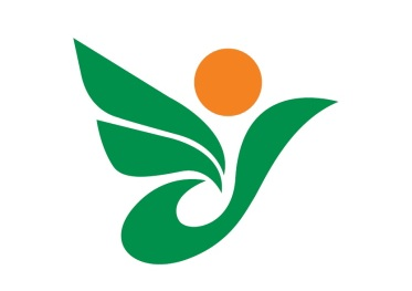 Flag of Kitaakita, Akita